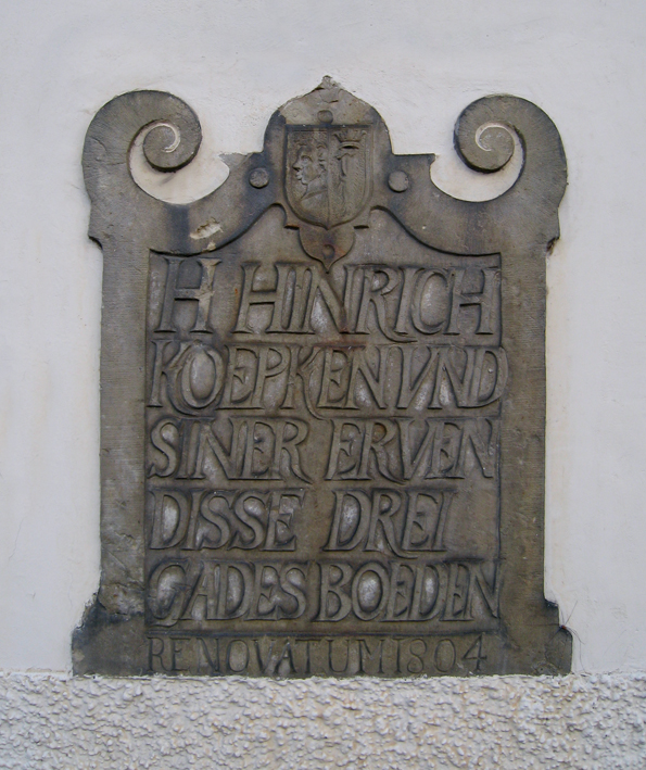 Inscription at the building of the Köpken-Stiftung (“Köpken trust”) in der Köpkenstraße in Bremen, Germany. Probably from the 17th century, it was renewed in 1804.